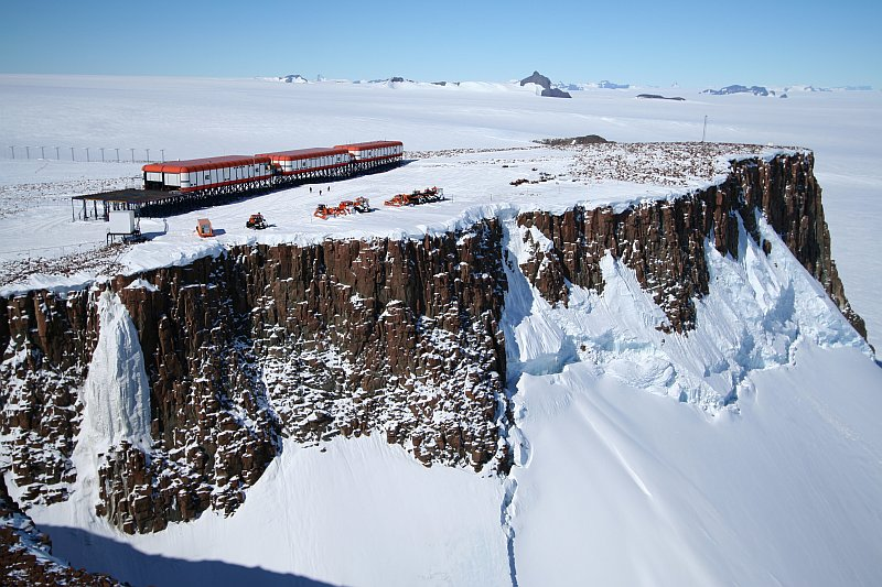 The South African National Antarctic Expedition research base, SANAE IV, at Vesleskarvet, Queen Maud Land, Antarctica. Aerial photography taken with Canon DSLR and 10-22mm wide-angle lens.